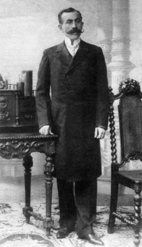 Isa bey Hajinski